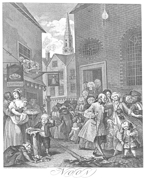 Hogarth, The literary encyclopedia